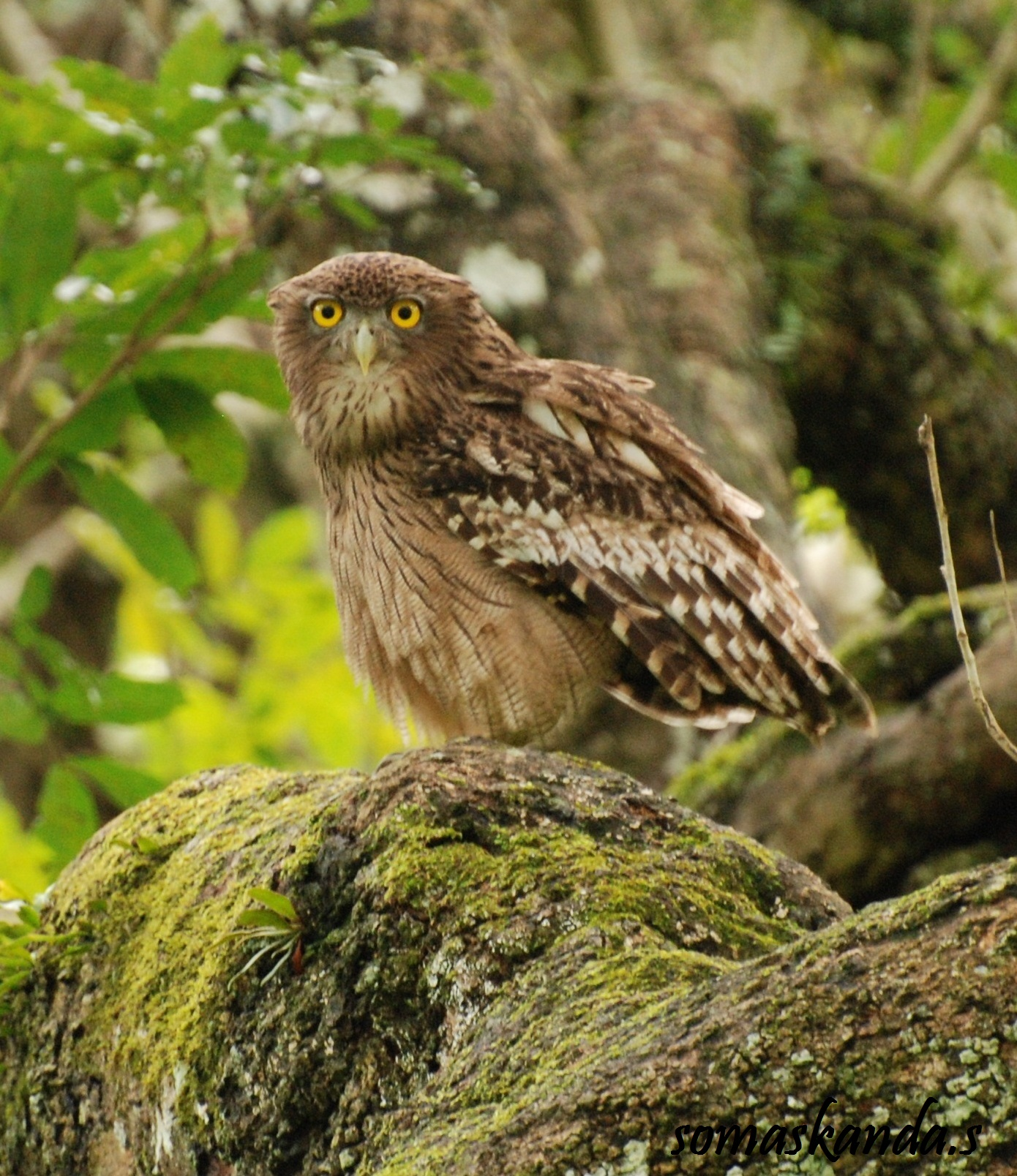 BR-hills, Karnataka,india